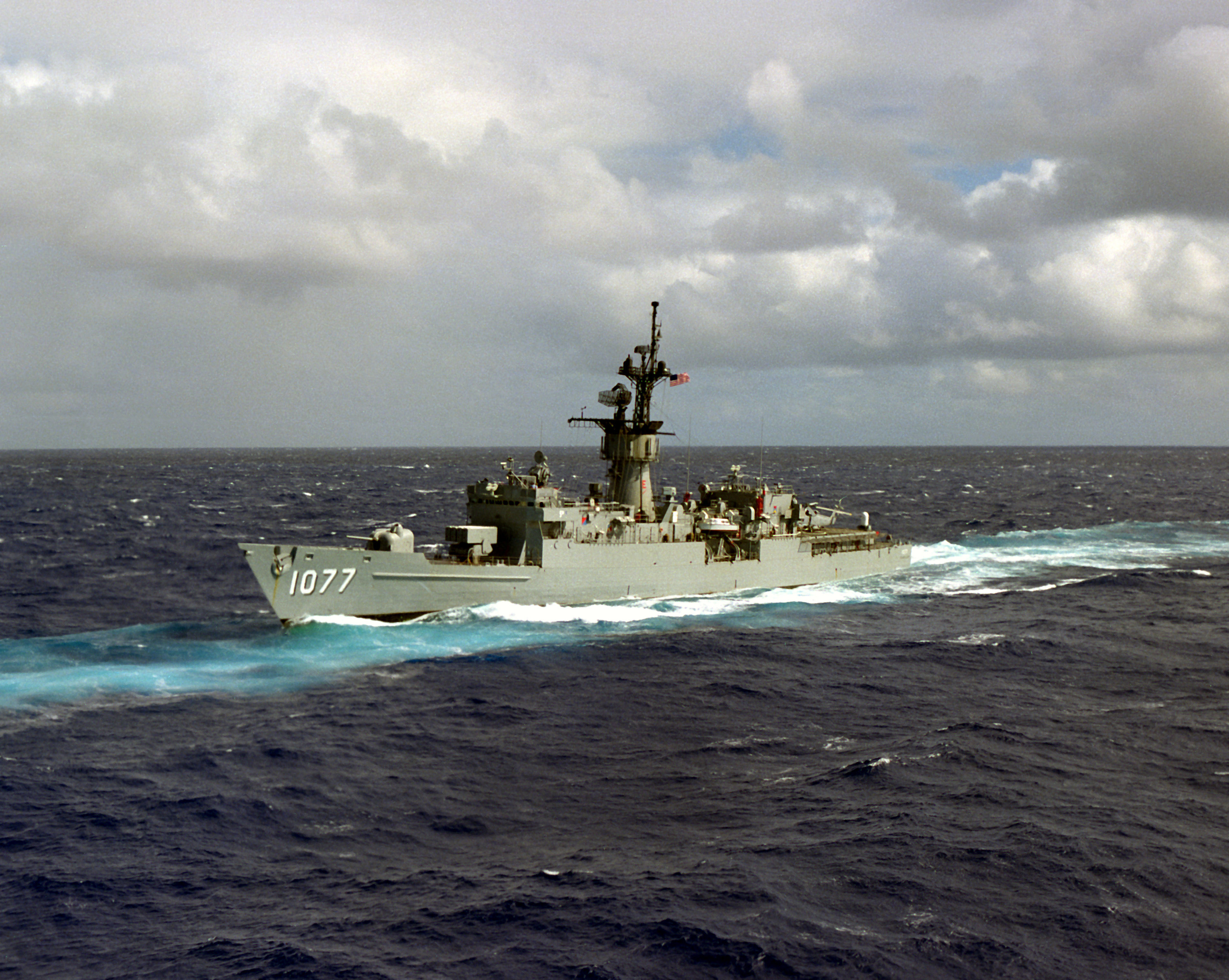 The U.S. Navy frigate USS Ouellet (FF-1077) underway in 1988.